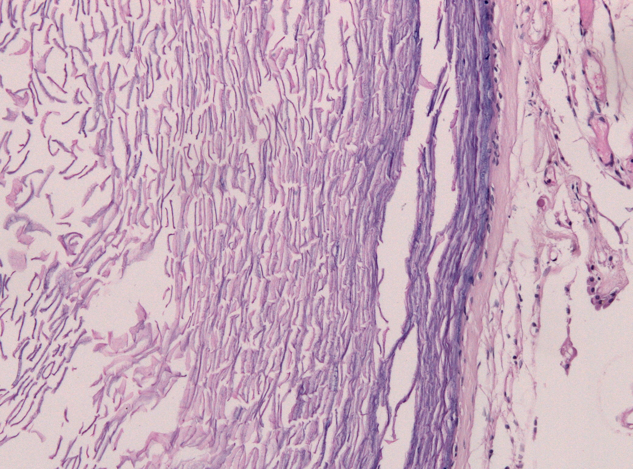 Intracranial epidermoid cyst with squamous epithelia (HE stain)